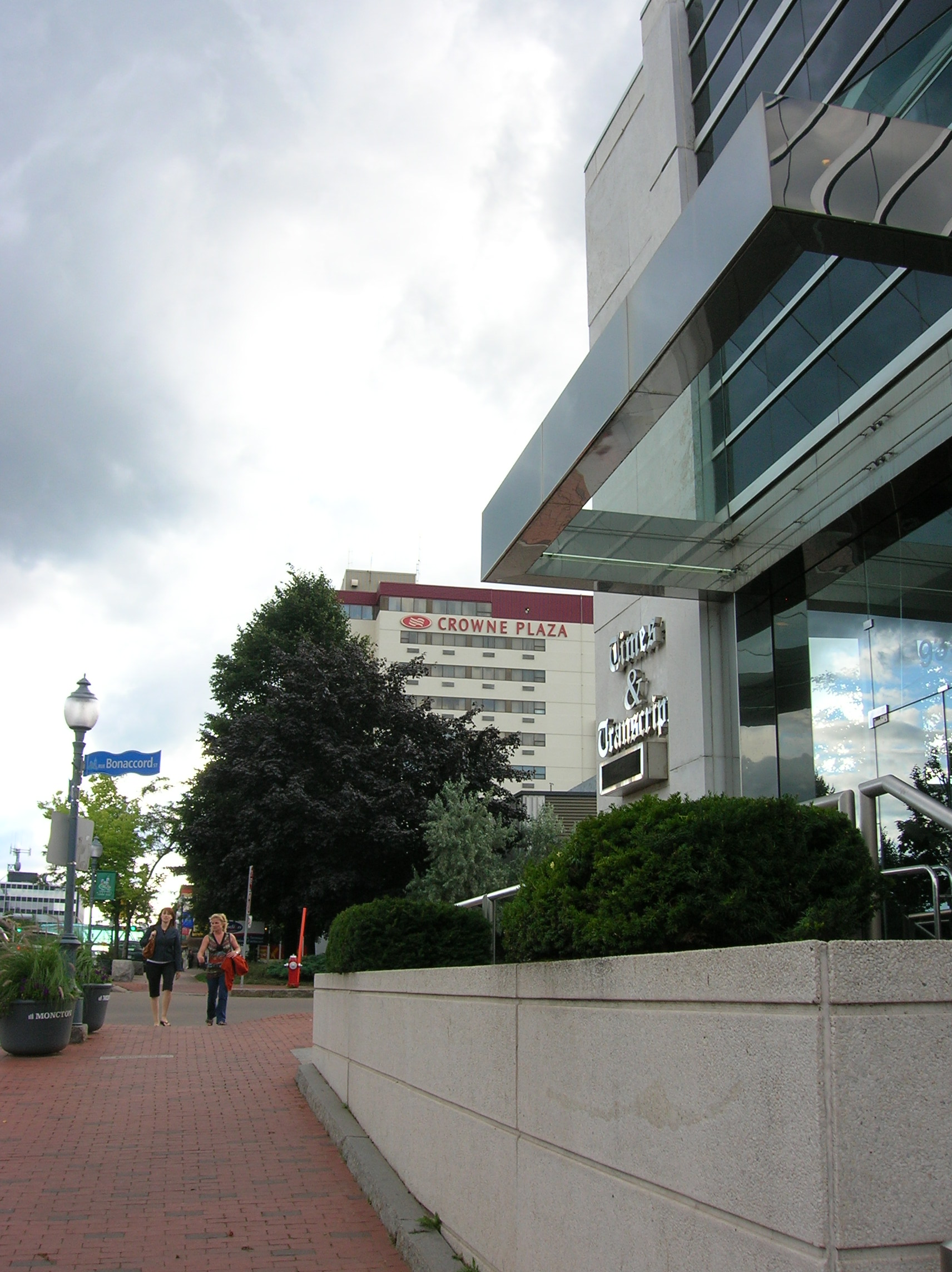 a scene in downtown Moncton NB